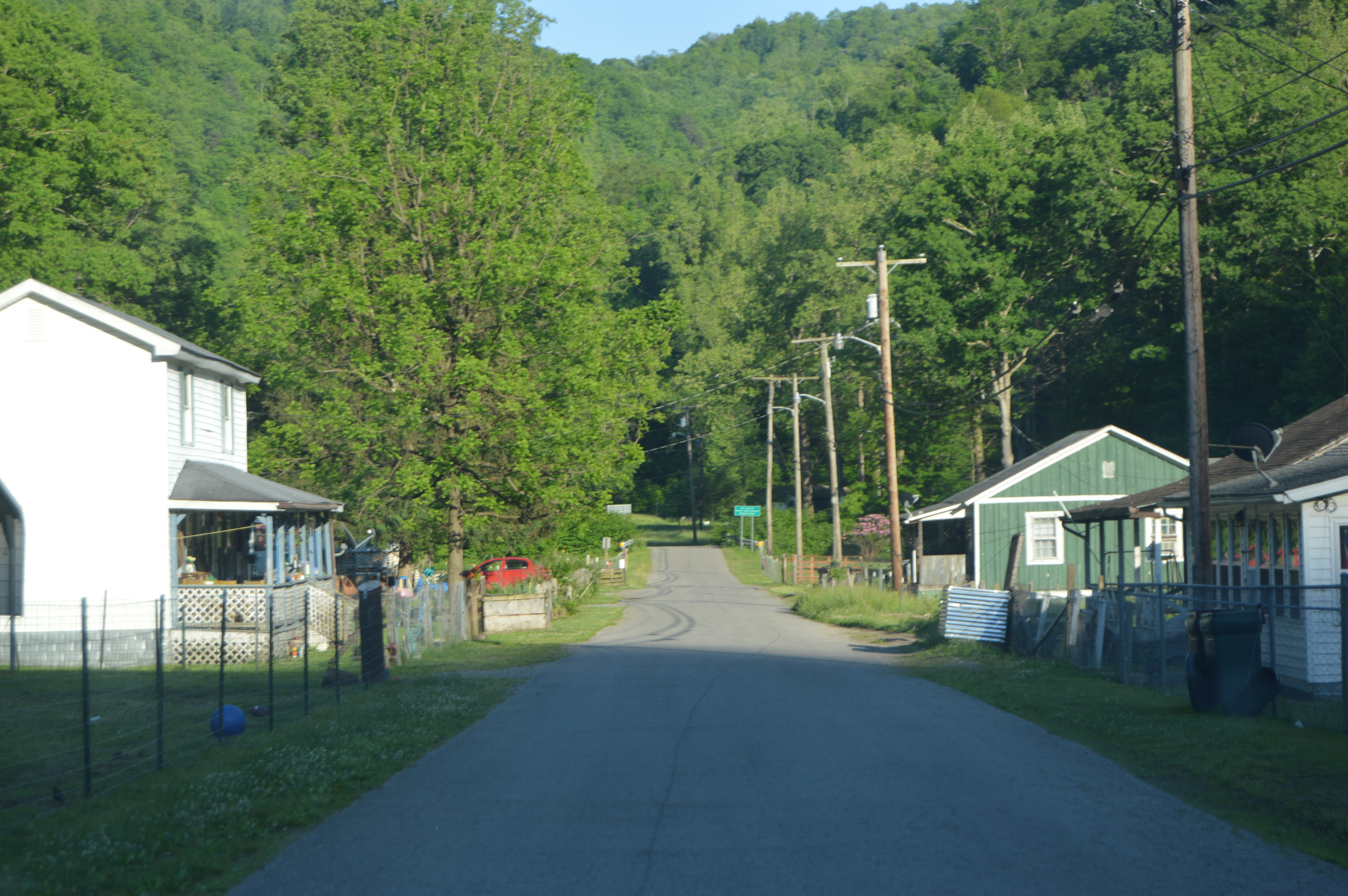 Houses on Kanawha Street at Widen in Clay County, West Virginia, United States.